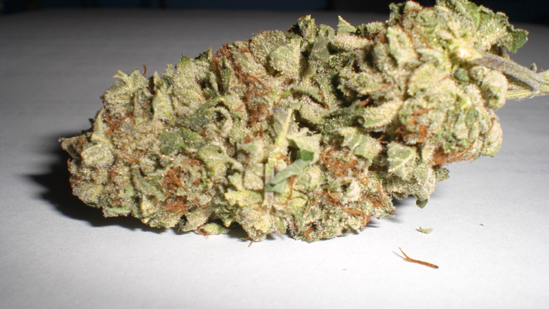 BC Bud